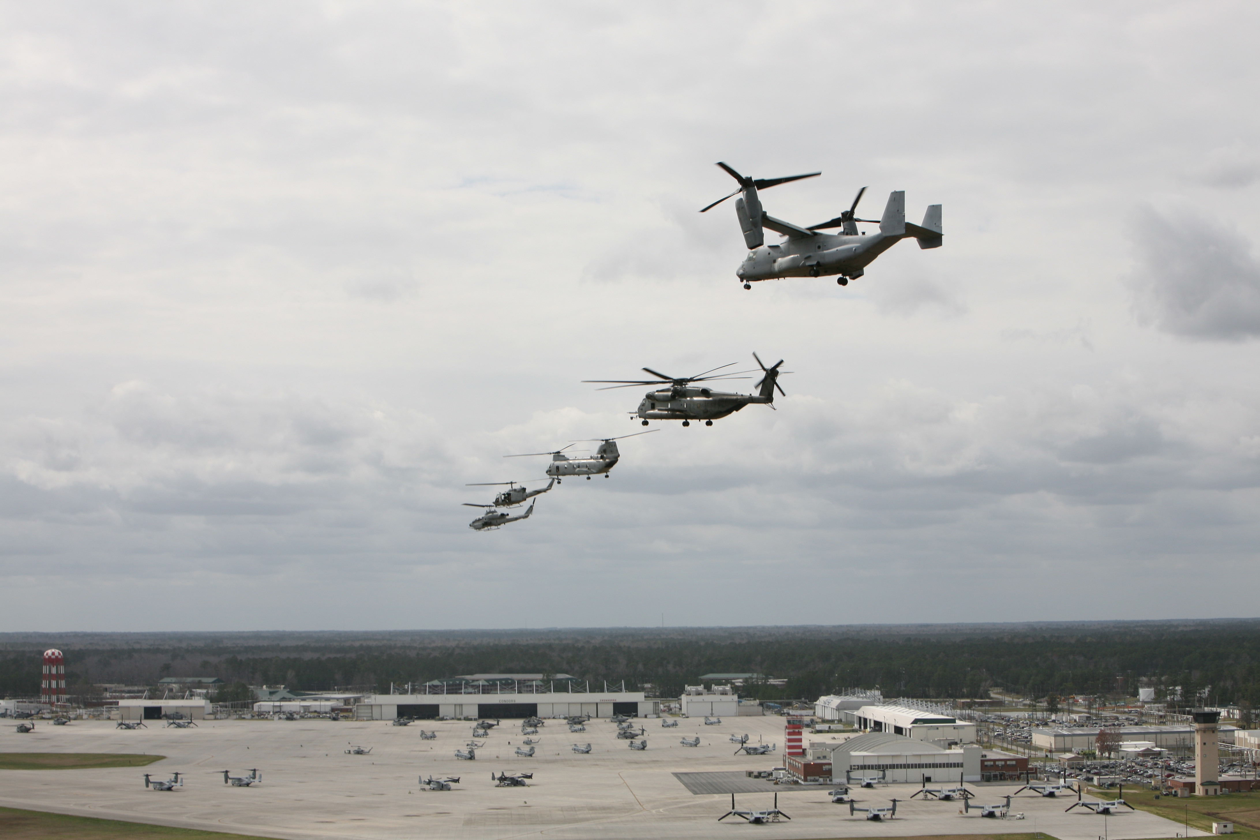 From right, a V-22 Osprey aircraft, a CH-53E Super Stallion helicopter, a CH-46 Sea Knight helicopter, a UH-1N Huey aircraft, and an AH-1 Cobra aircraft perform a formation flight over Marine Corps Air Station New River, N.C., March 18, 2008. (U.S. Marine Corps photo by Cpl. Michael L. Haas) (Released)